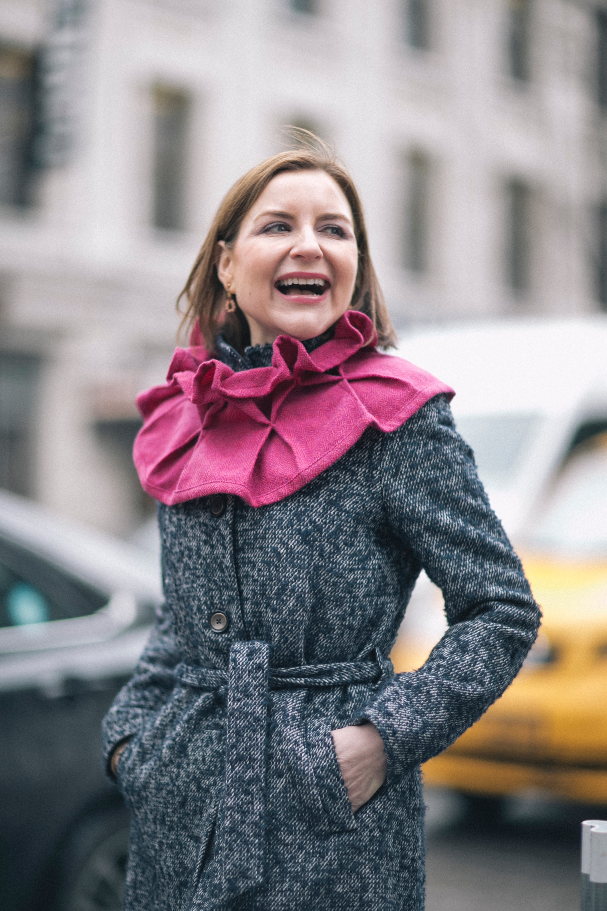 Margaret in NYC